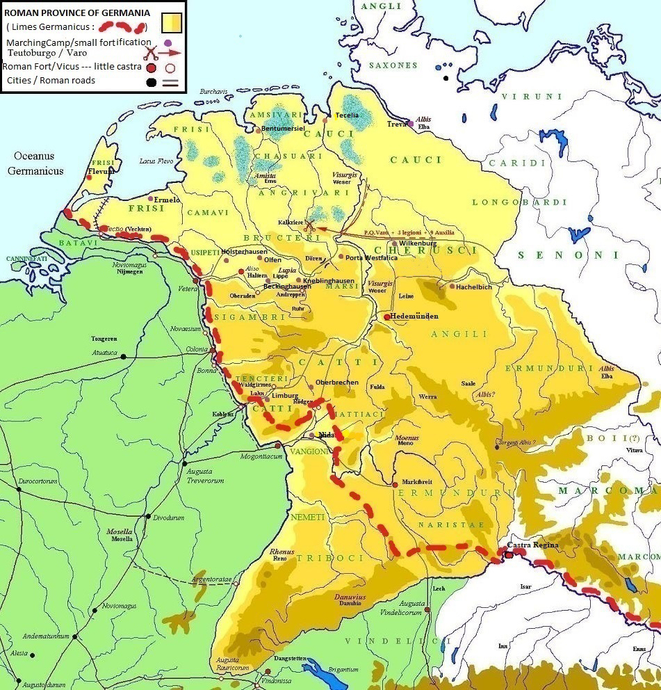 Map of the Roman province of Germania. Original map taken from Commons (File:Germania 7-9 Varo jpg.JPG). I have added data with my software.